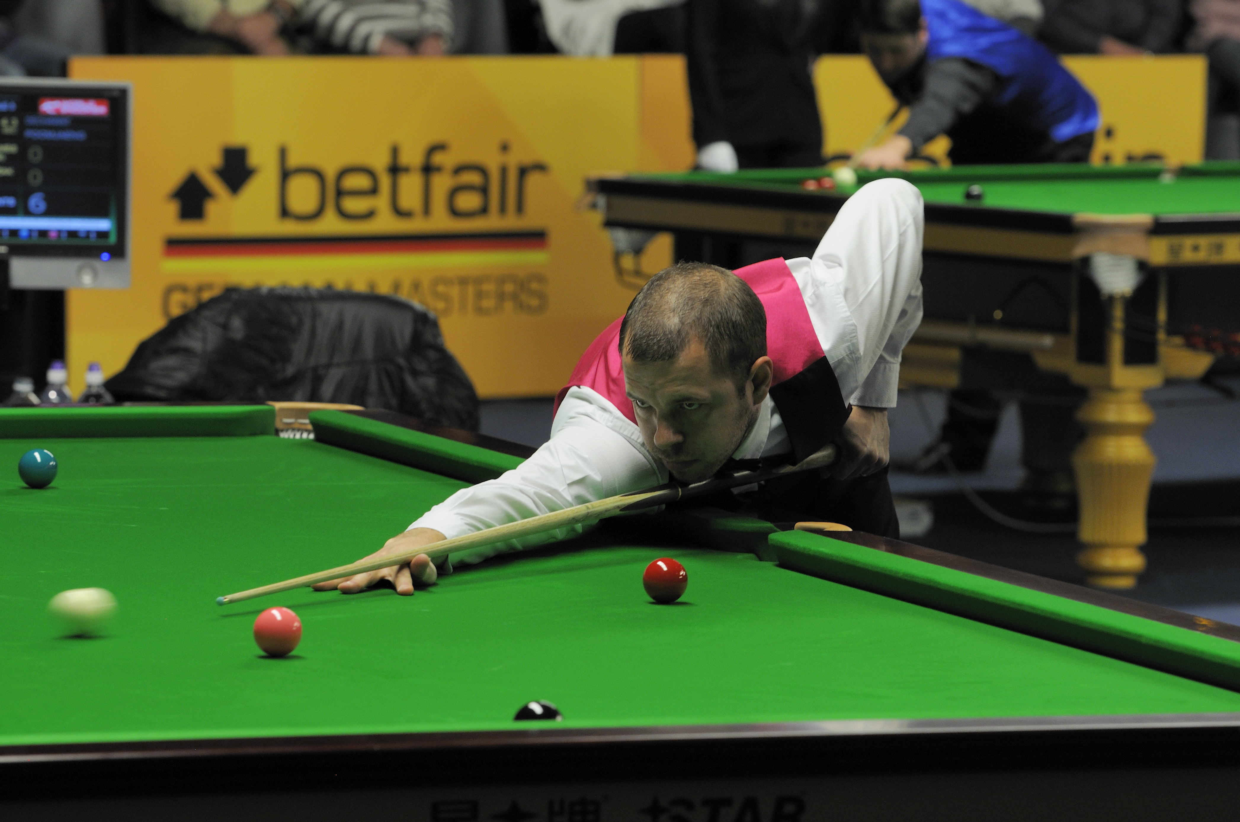 Picture taken in Berlin during the Snooker German Masters in 2013. Barry Hawkins.